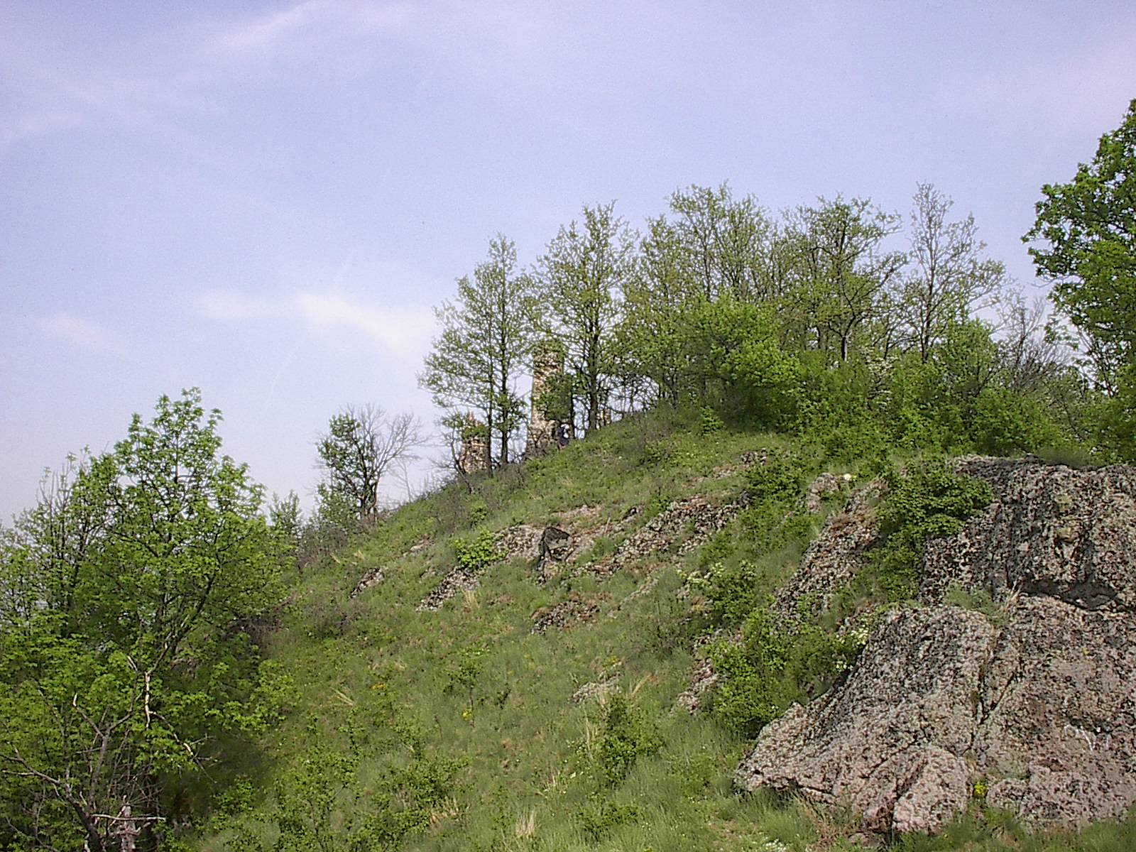 the castle of Dezna (Romania)